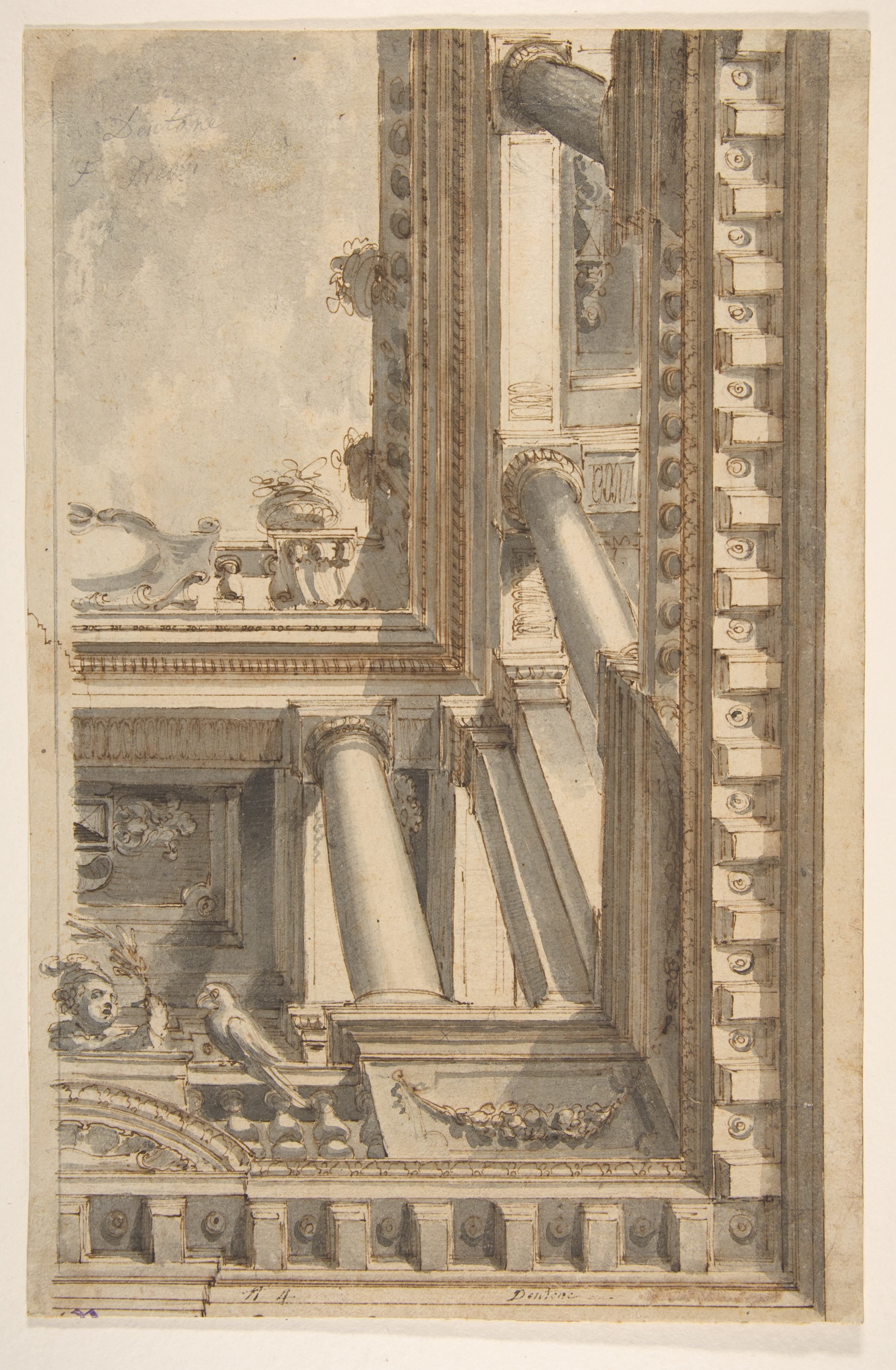 Drawing Ornament & Architecture; Drawings